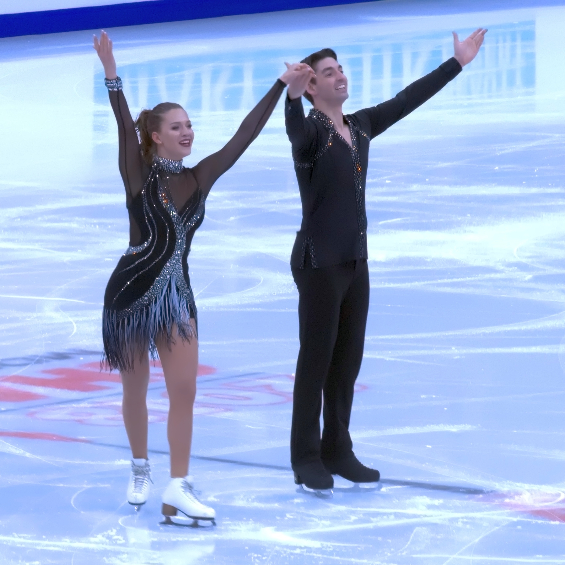 Alisa Agafonova and Alper Uçar at the 2018 European Figure Skating Championships in Moscow